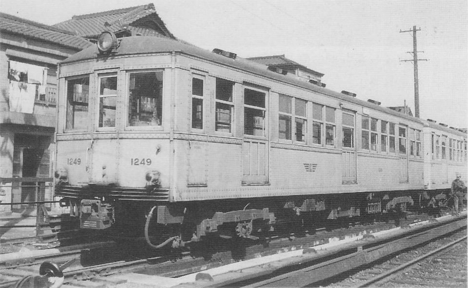 Teito Rapid Transit Authority Ginza Line 1200 series EMU car 1249